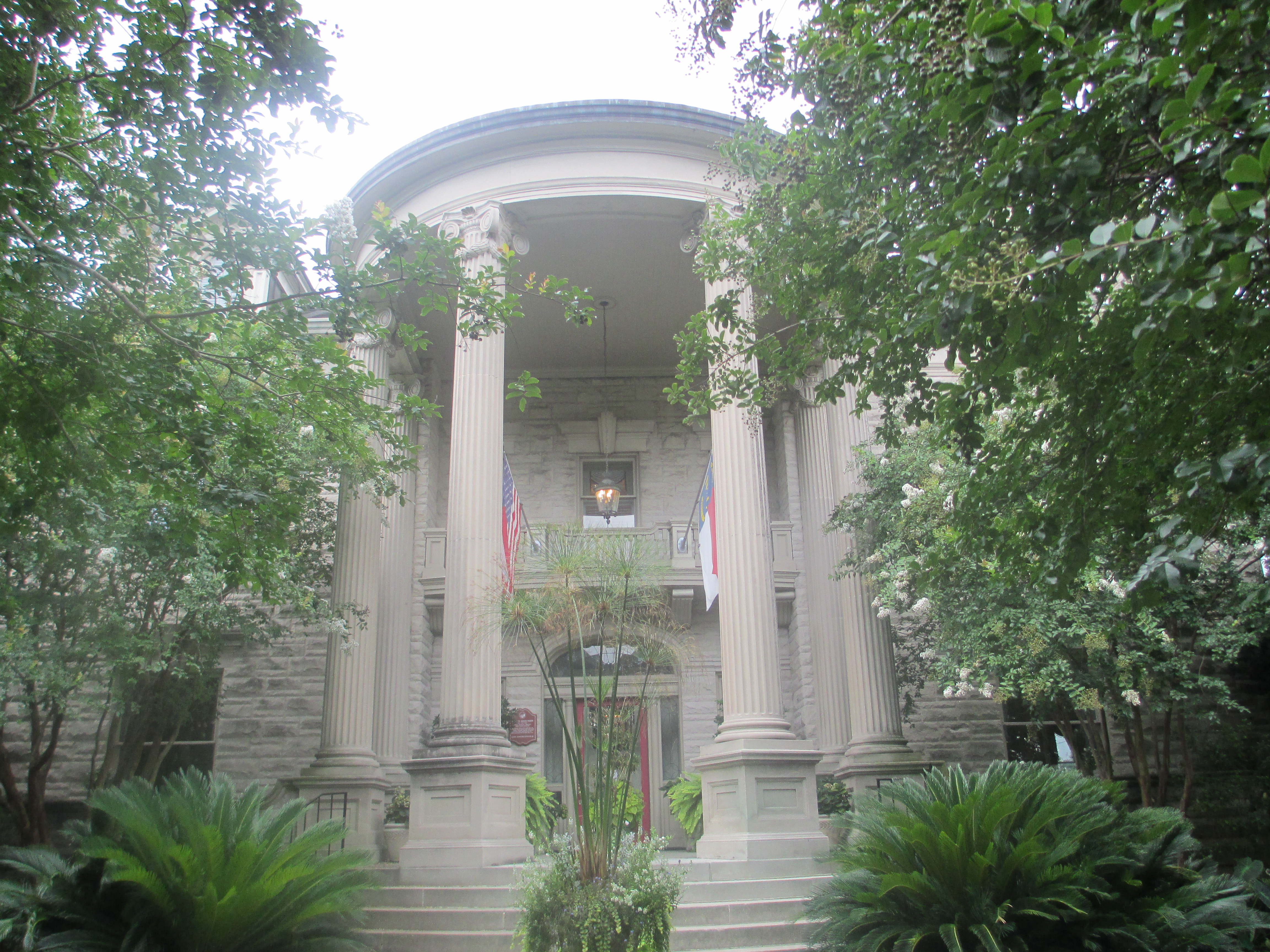 I took photo of Graystone Inn bed and breakfast in Wilmington, N.C., with Canon camera.